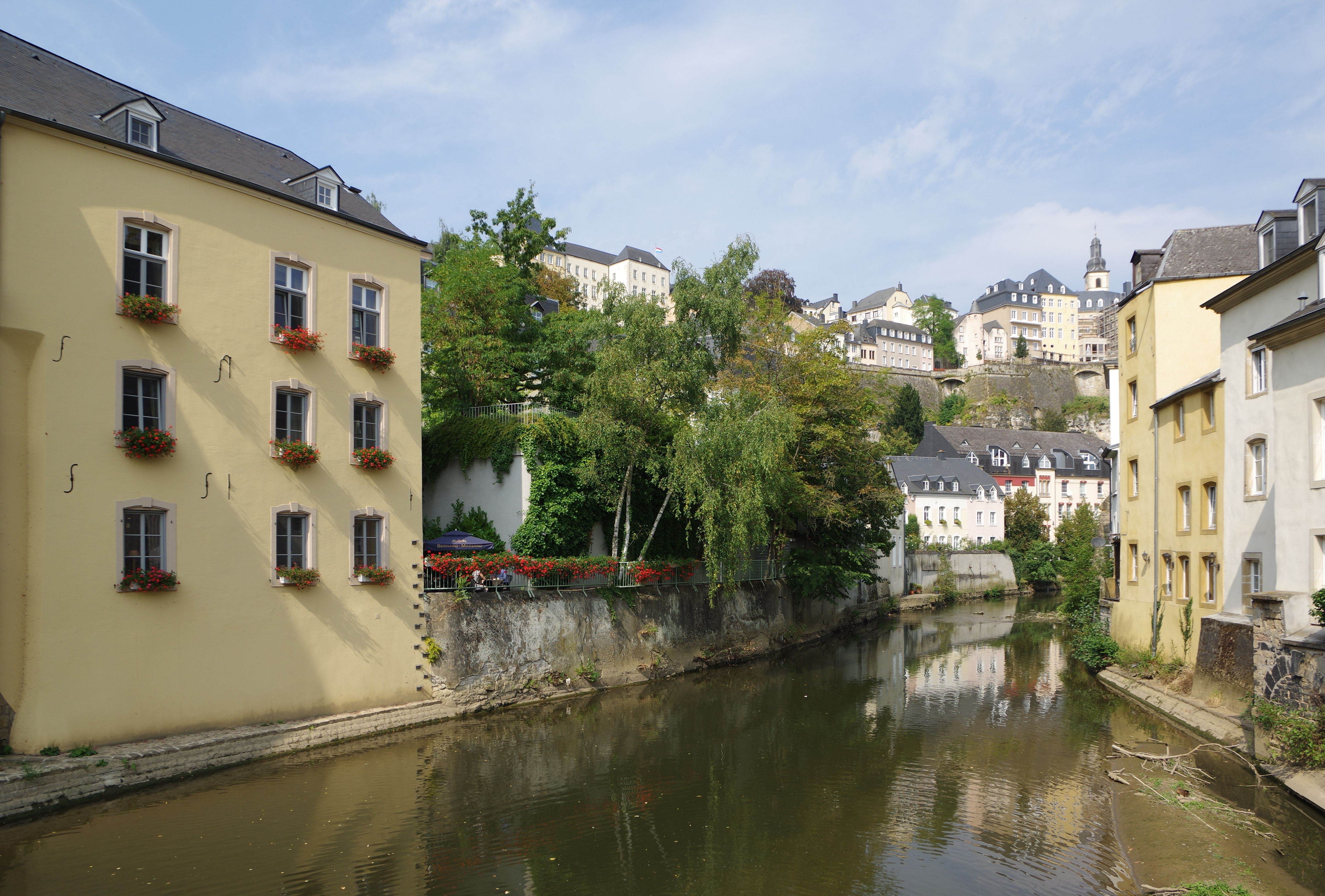 Luxembourg city, the river Alzette in the town quarter Grund